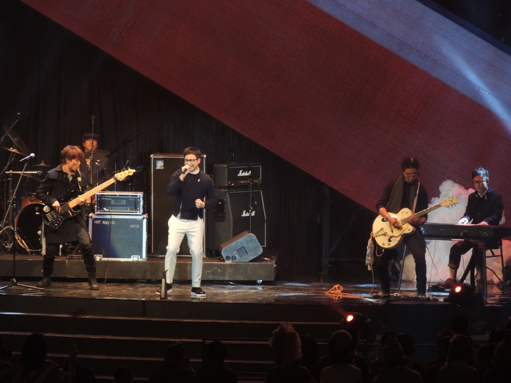 Rubber Band @ Ultimate Song Chart Awards 2012